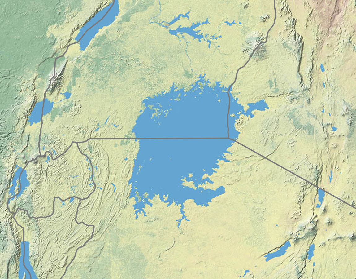 Blank map showing the vegetation of lake Victoria's area